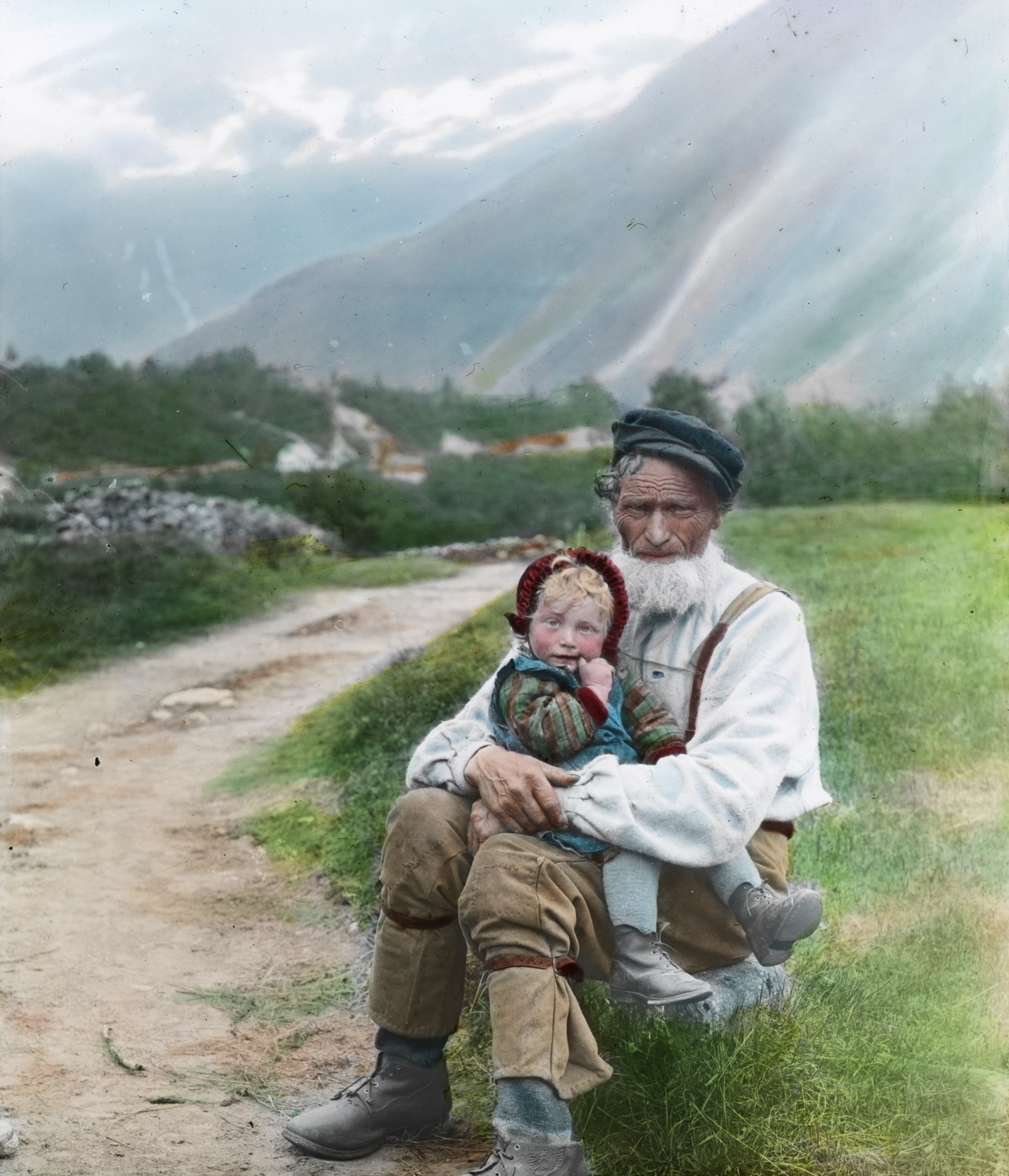 SFFf-1992078.0005 Old man and child.